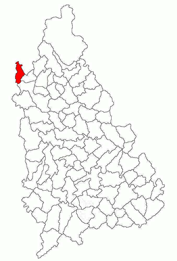 Locator map of Văleni-Dâmbovița Commune in Dâmbovița County, Romania